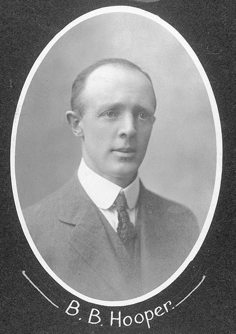 Photographic portrait of architect Basil Hooper taken when he was a Roslyn Borough Councillor in 1912